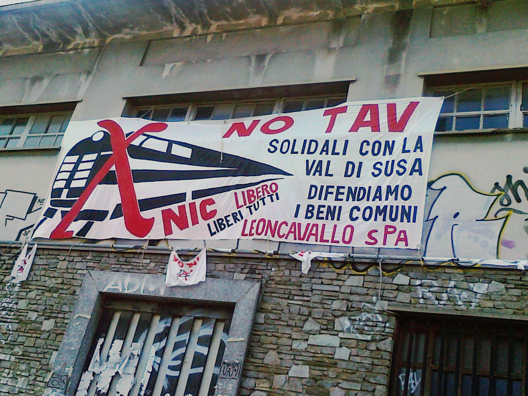 No- TAV manifest on the facade of Leoncavallo building (Milano)